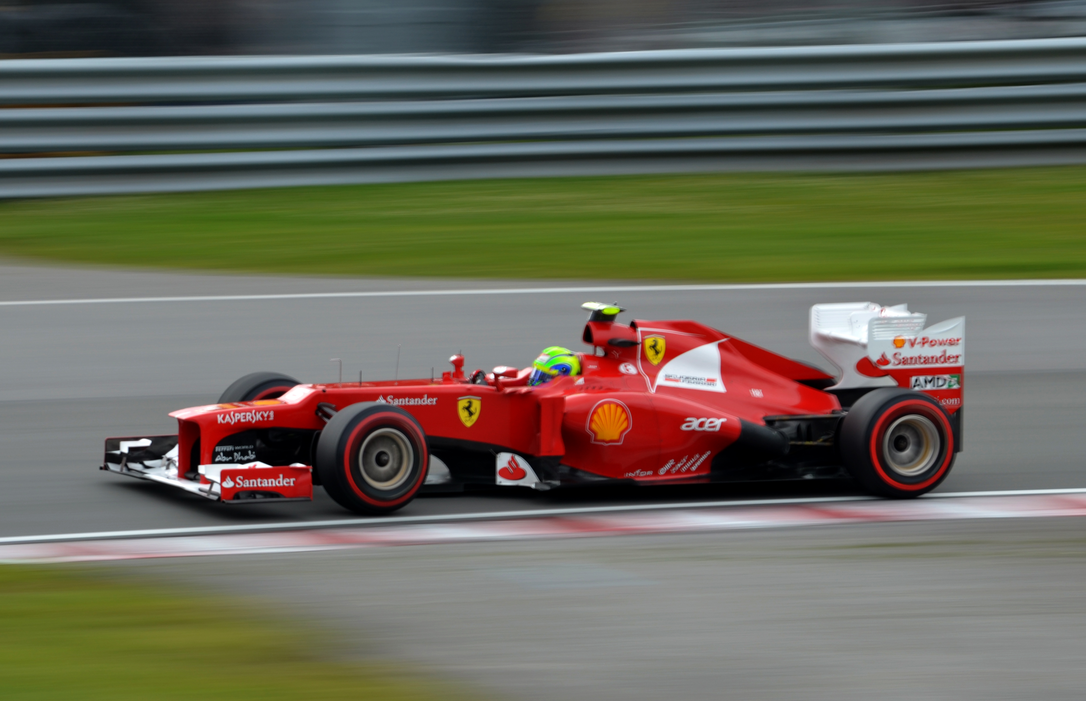 Felipe Massa in the Ferrari F2012 at turn 9 of Circuit Gilles Villeneuve during second practice for the 2012 Canadian Grand Prix.